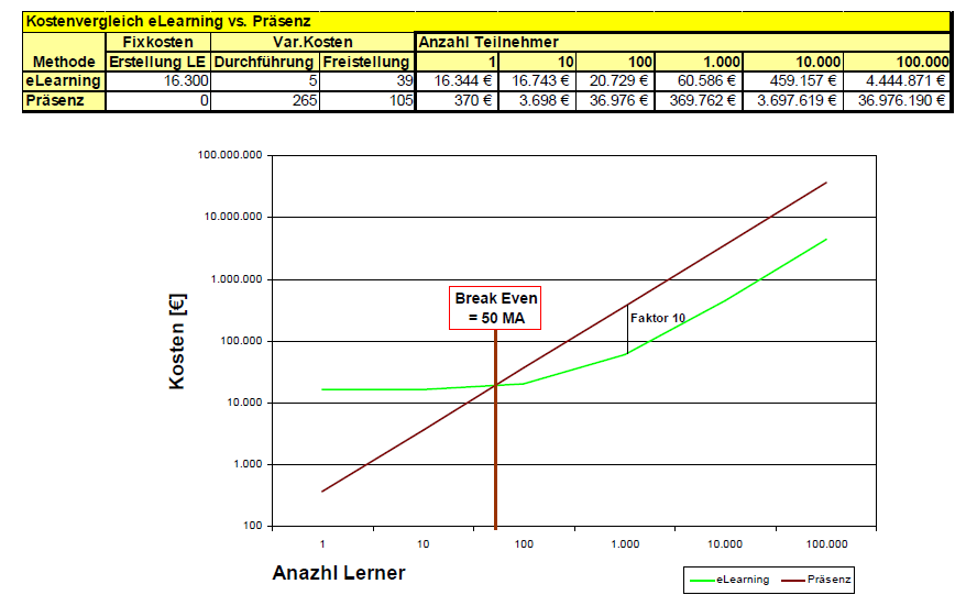 Cost-effectiveness E-Learning.